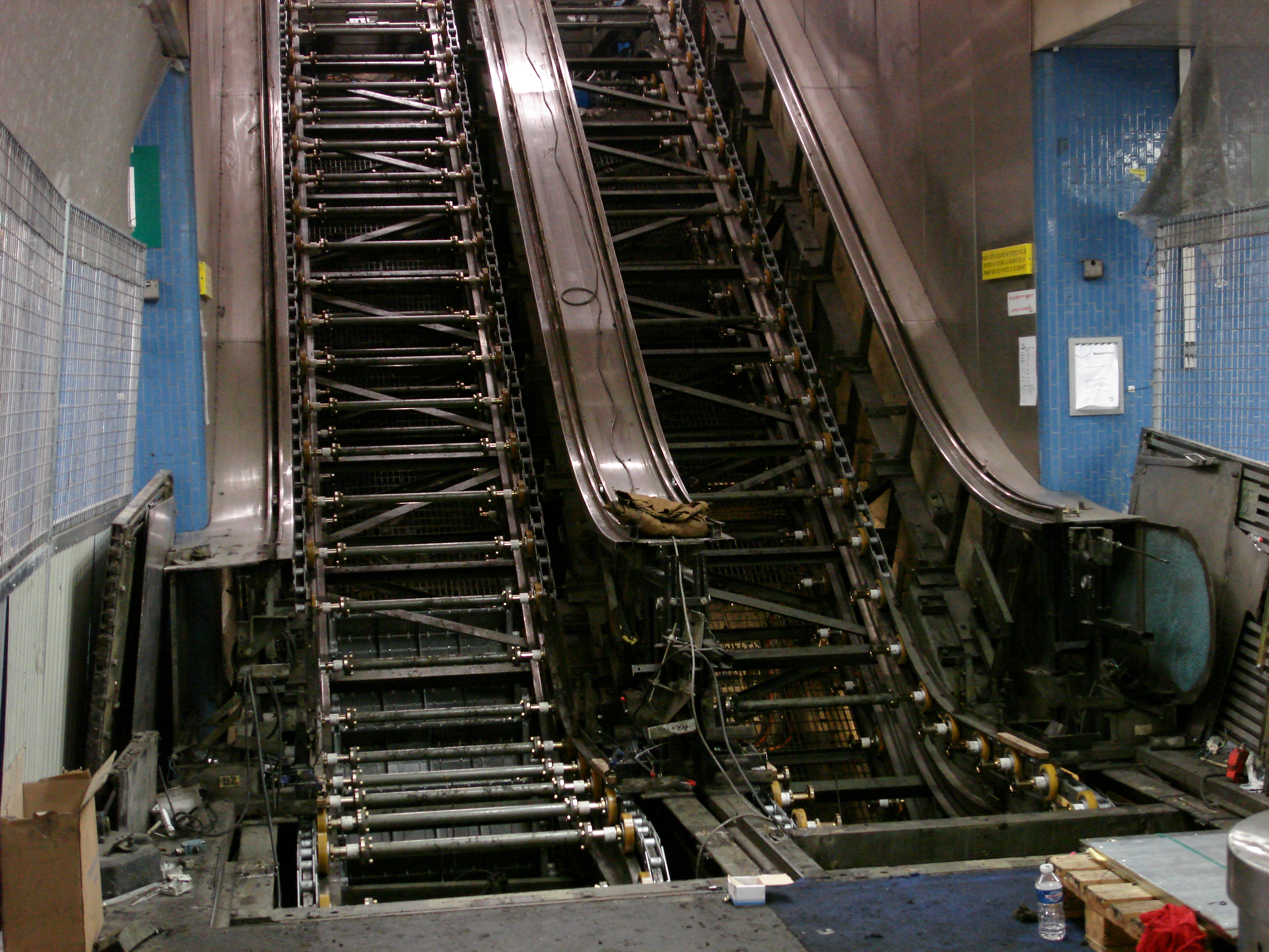 Escalator maintenance in the RER B Châtelet - Les Halles train station in Paris, France.